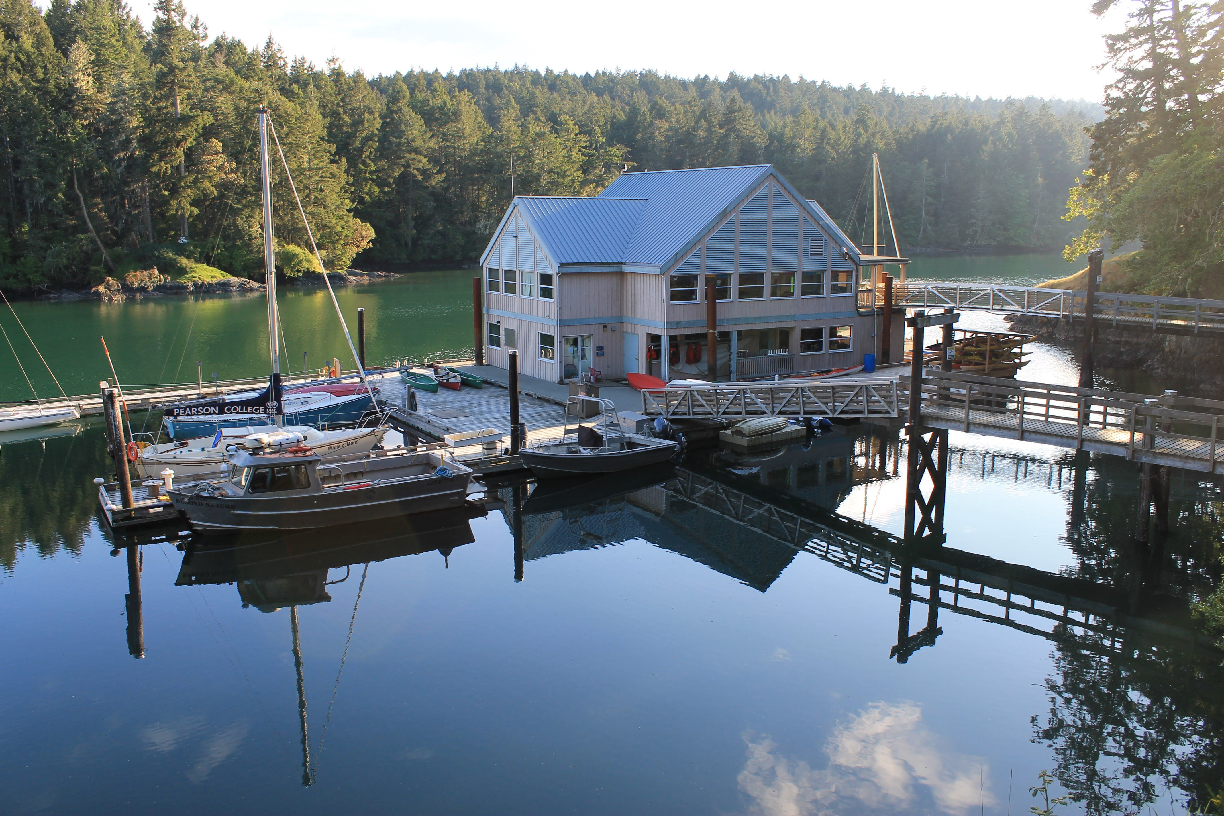 Floating Classrooms at Pearson College